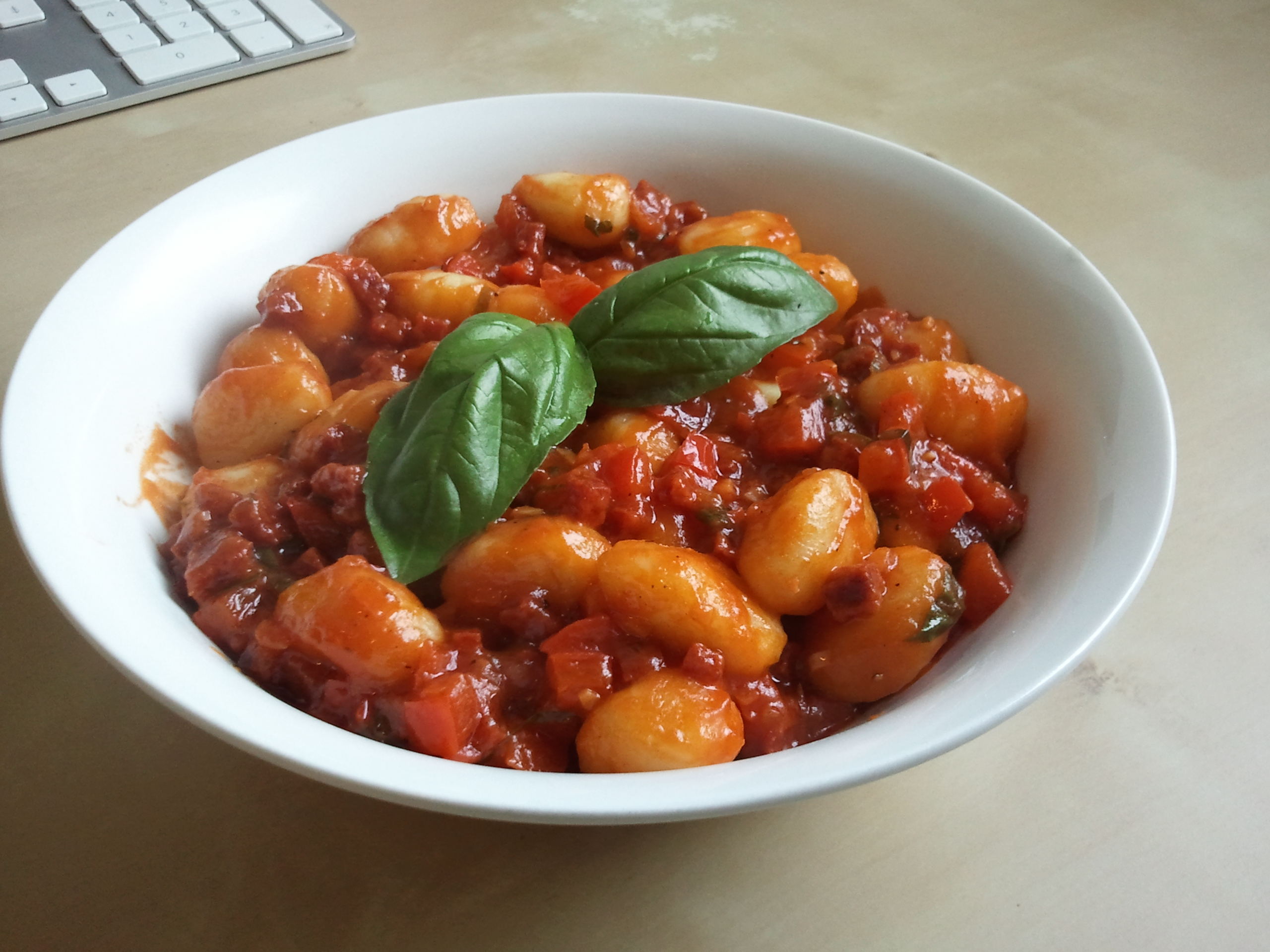 A bowl of "gnocchi di patate" with a tomato-chorizo sauce, with red bell pepper. Seasoned with some seasalt, pepper and basil.